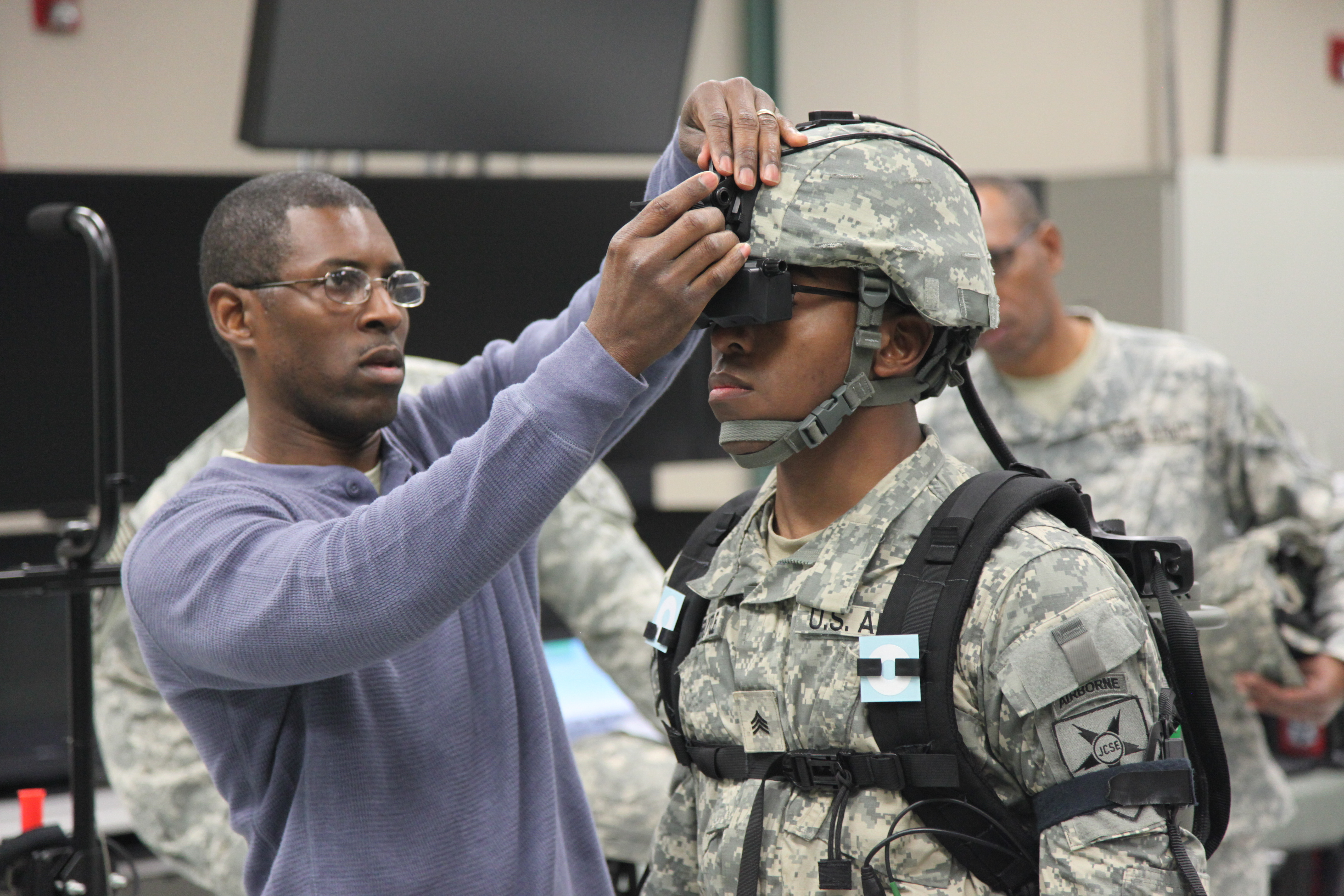 U.S. Army Sgt. Andrew Caulder-Lytle (Right), assigned to Mike Troop, 4th Joint Communication Support Element (Airborne)/ 4 Joint Communication Support, is being assisted by Mr. James Phillip (Left), Dismounted Soldier Training System Technician, by mounting his virtual reality goggles onto his Army Combat Helmet at Mission Command Training Branch Building, Fort Stewart, Ga., April 16, 2013. This training is helping soldiers operate using a virtual environment as if they were on a real life mission on a foreign battlefield. (U.S. Army photo by Sgt. Austin Berner/Released)